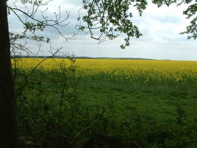 Oilseed rape field from Easton Hornstocks Taken from the edge of Easton Hornstocks National Nature Reserve, looking towards Bedford Purlieus National Nature Reserve in the distance, across a field of oilseed rape.